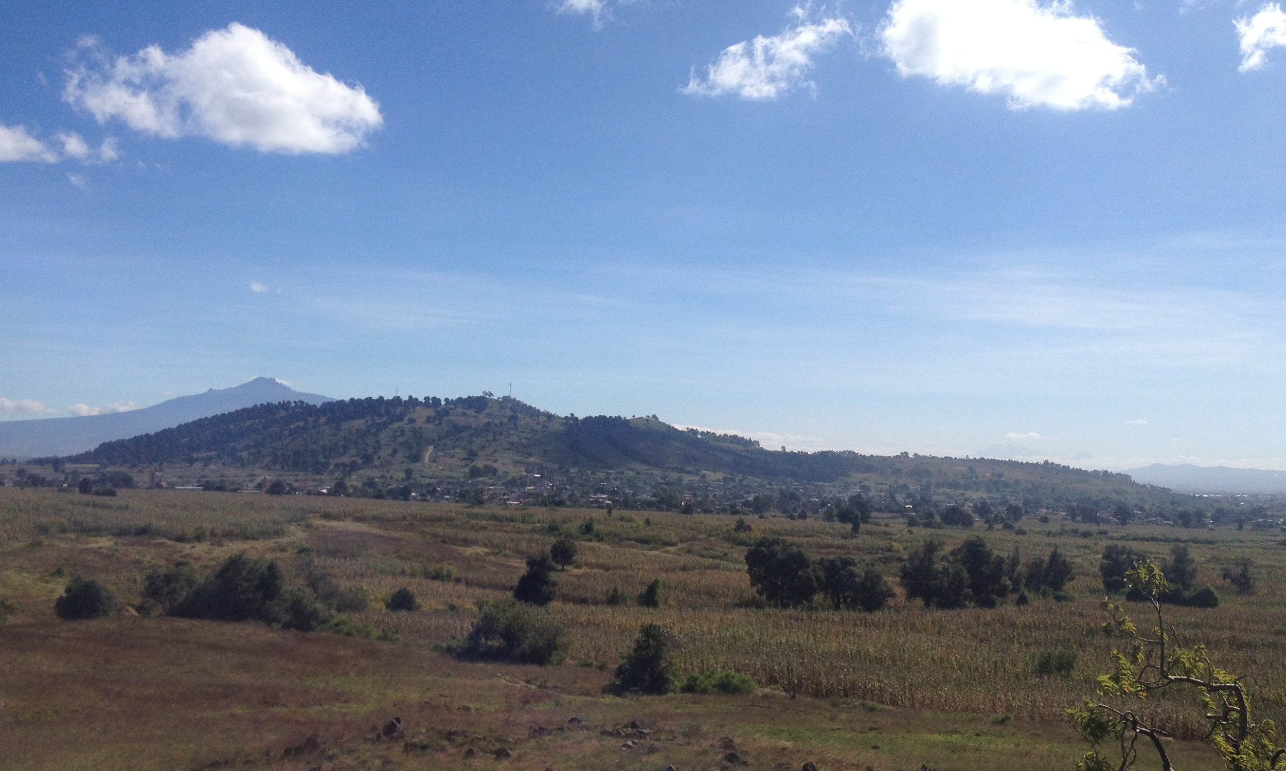 Zapotecas hill and volcano in San Pedro Cholula, Puebla, Mexico